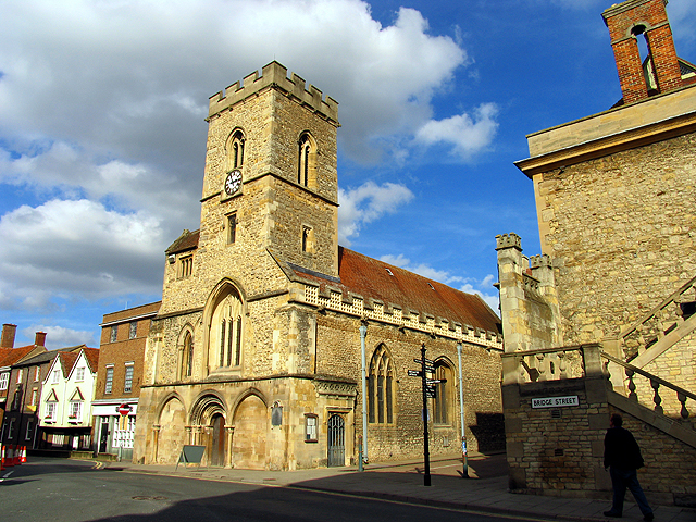 Church of England parish church of St Nicholas Church, Abingdon. The church on the north east side of Bridge Street, near the Abbey ruins.